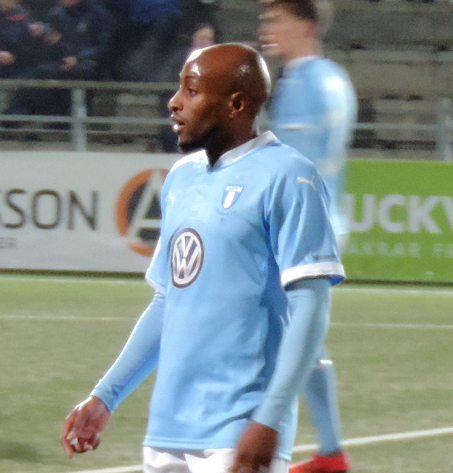 Practice game at Malmö IP, Malmö FF - FC Flora 4-0, 2018 Jan 26